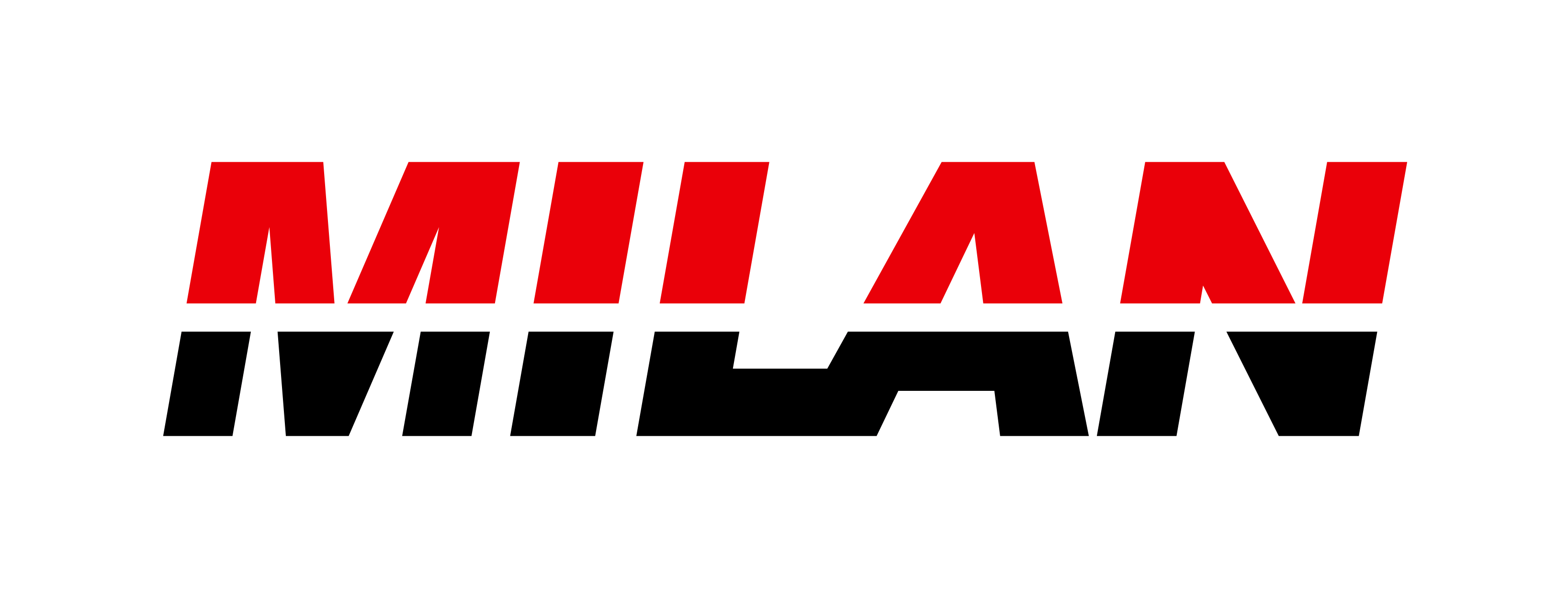 Wordmark of A.C. Milan inspired to the original used by the Italian football club between the 2nd half of 1980s and the 1st half of 1990s.